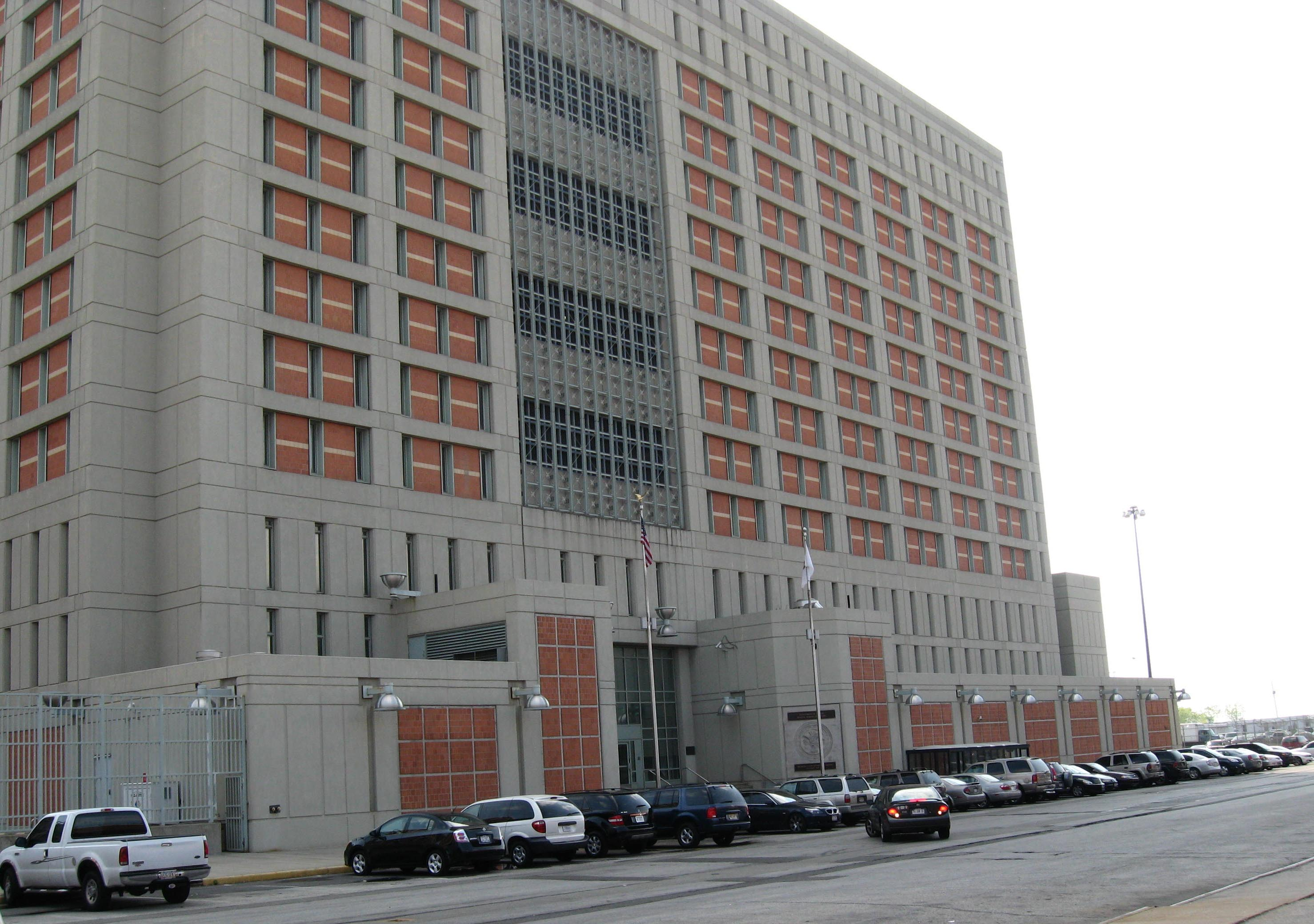 Metropolitan Detention Center, Brooklyn. Looking west across 29th Street and towards 3d Avenue on a sunny spring afternoon.